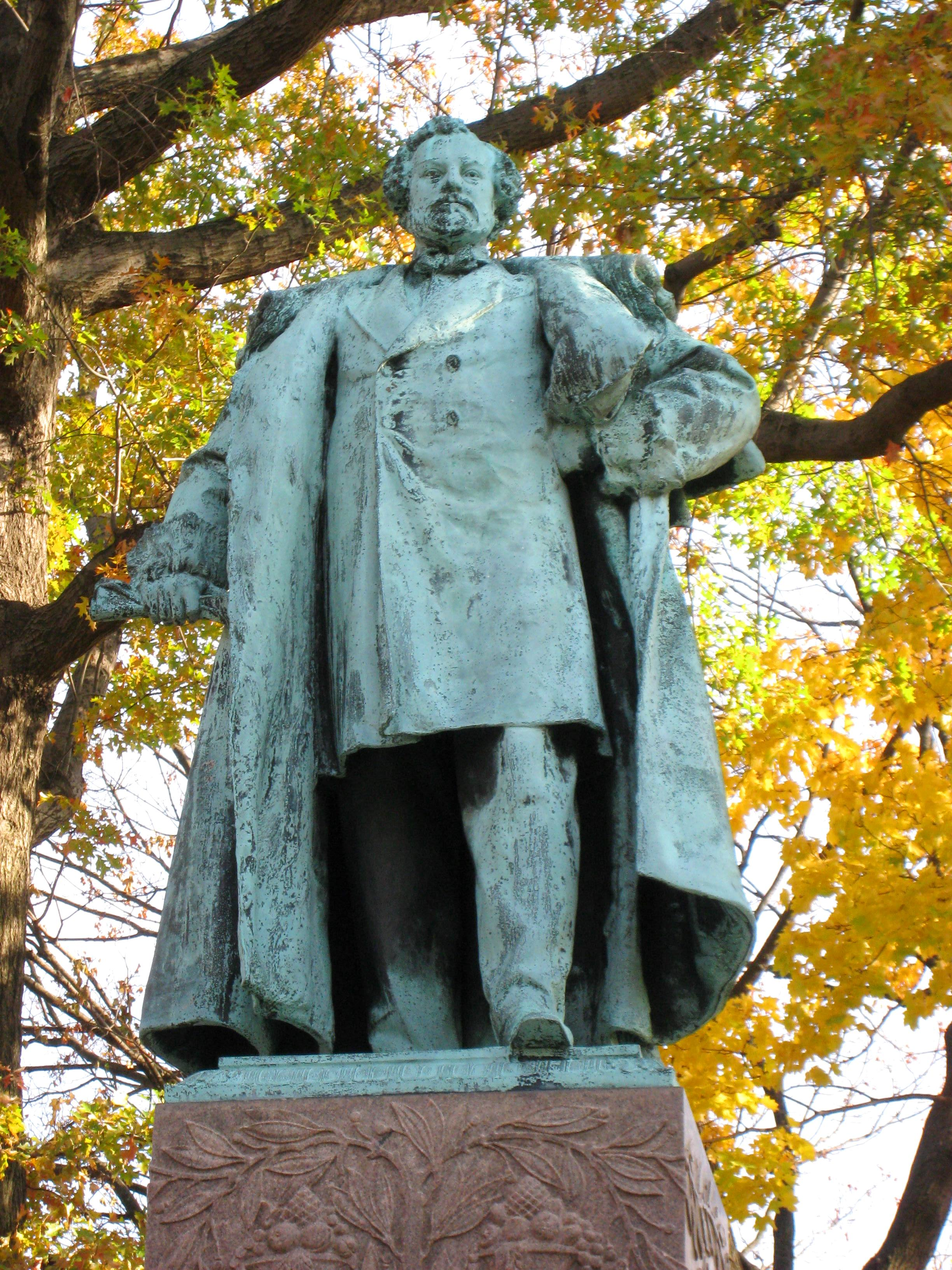 Standing figure - Samuel Colt Memorial, Colt Park, Hartford, Connecticut, USA.